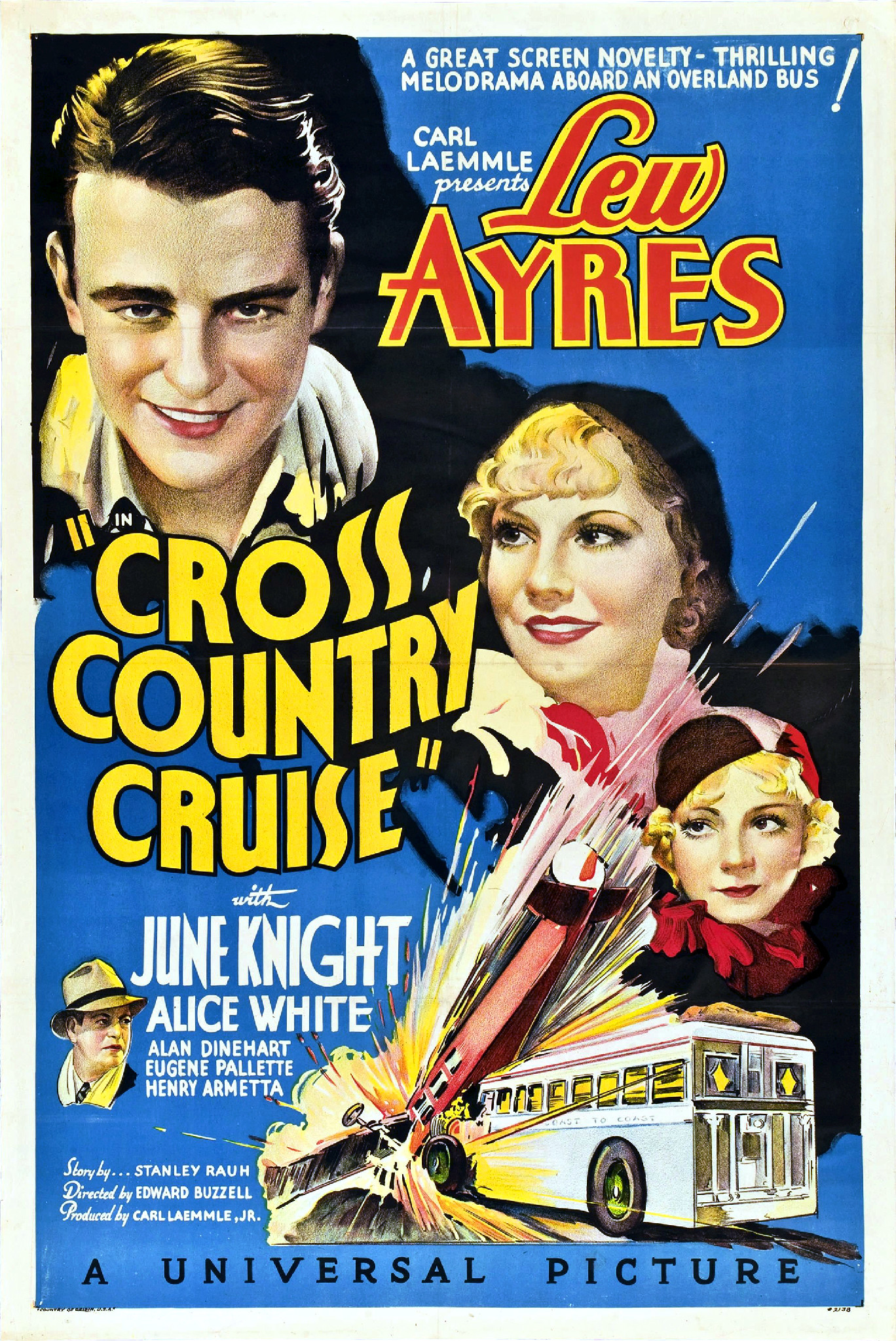 Poster for the 1934 film Cross Country Cruise. There are no copyright marks on the poster. At bottom left is Country of origin USA. At bottom right is #2138.